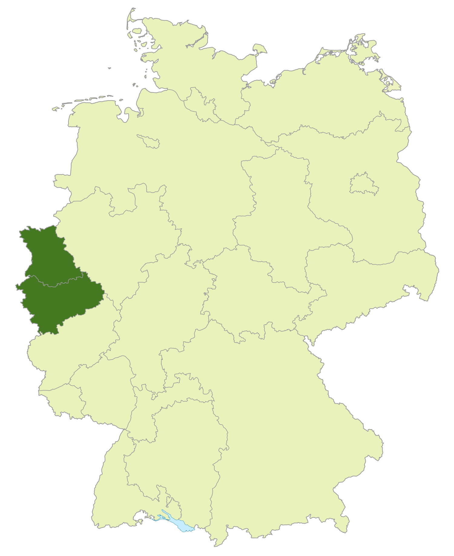 Map of Fußball-Oberliga Nordrhein, Germany